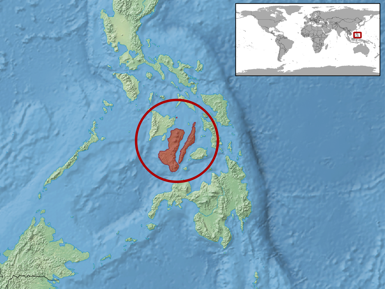 geographic distribution of Hemiphyllodactylus insularis (Native: Philippines)